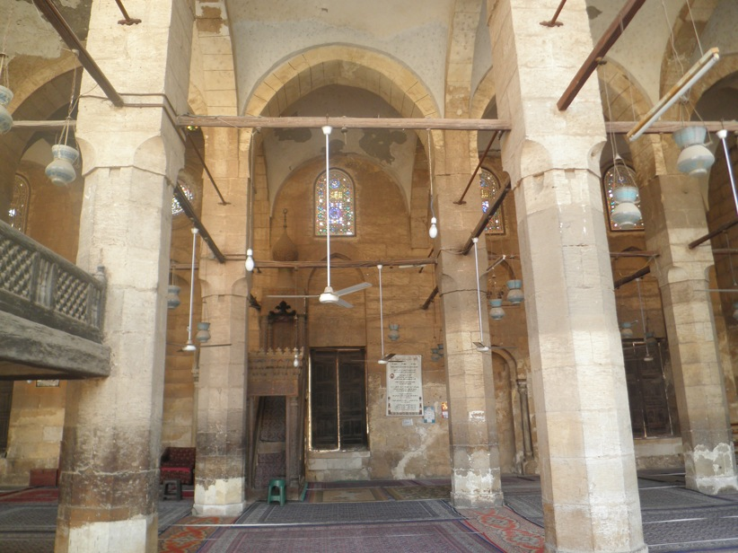 Funerary complex of sultan Faraj Ibn Barquq in Cairo, prayer hall with minbar